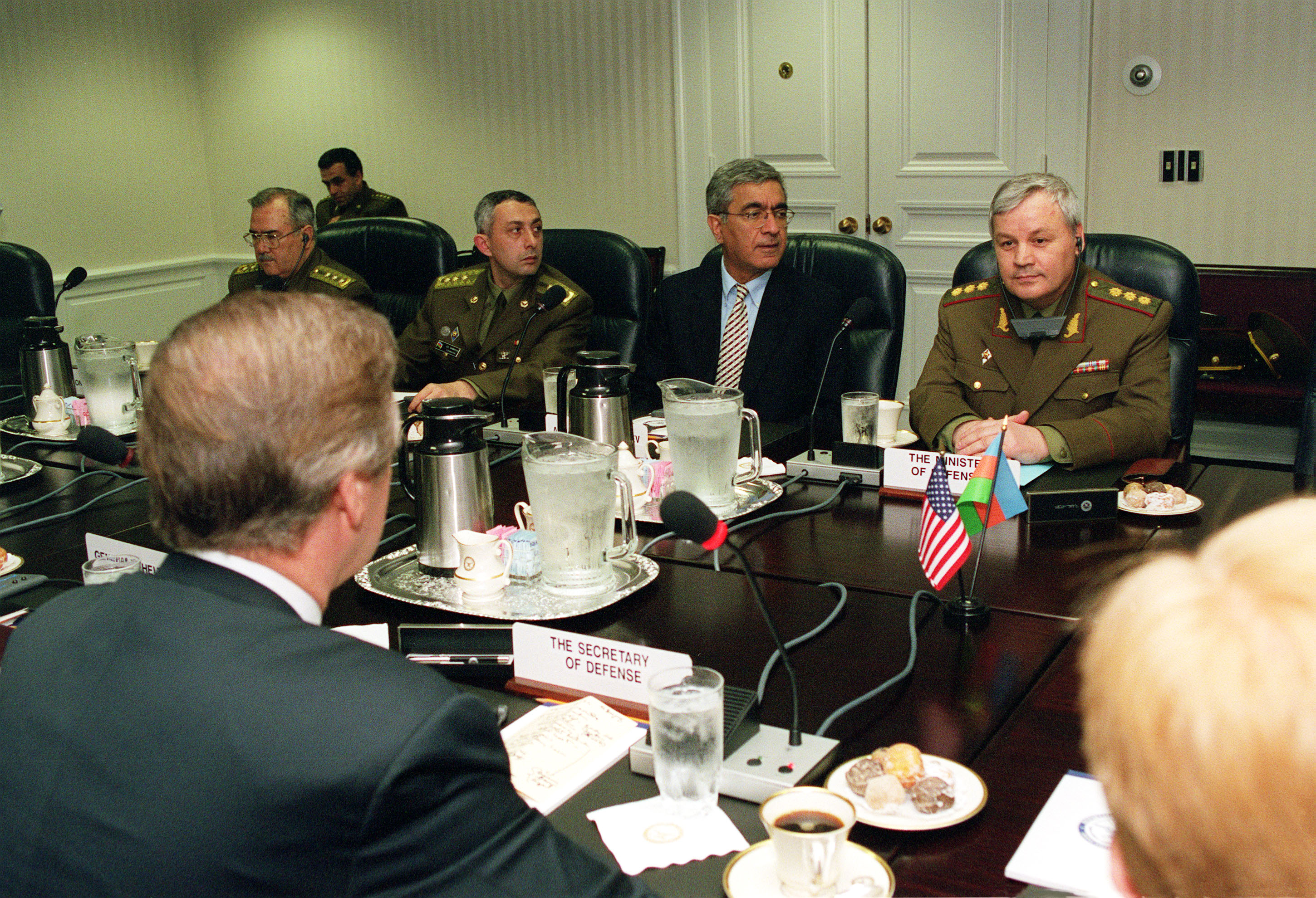 Secretary of Defense William S. Cohen (left foreground) opens a plenary meeting with Minister of Defense Gen.-Col. Safar Abiyev (right), of the Azerbaijani Republic, in the Pentagon on June 30, 2000. Cohen and his senior policy advisors are meeting with Abiyev to discuss a range of regional security issues. Seated left of Gen.-Col. Abiyev is the Azerbaijani Ambassador to the United States Hafiz Pashayev.